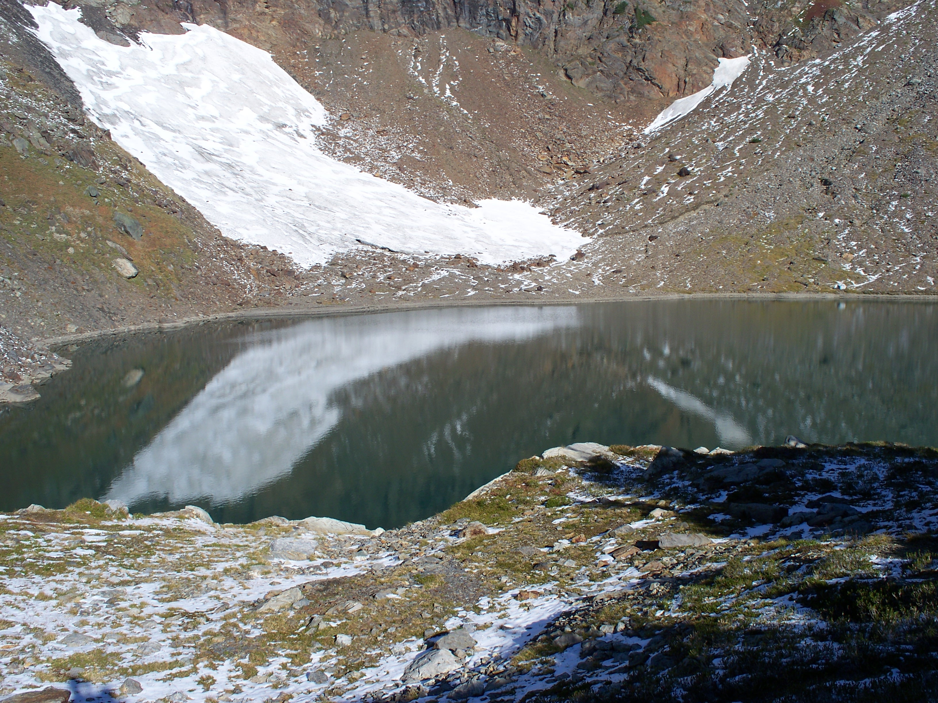 Photo of Williamson Lake, Chilliwack, British Columbia